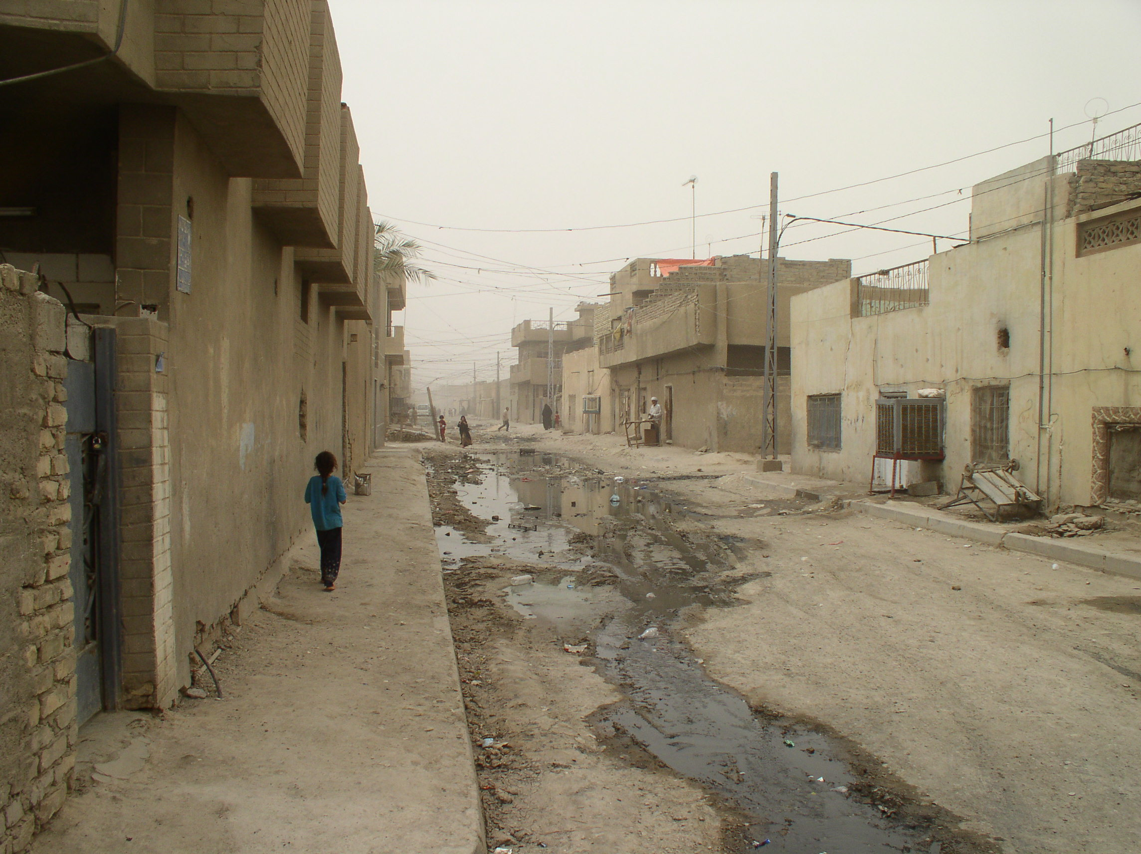 Sadr City in Badghad, July 2005